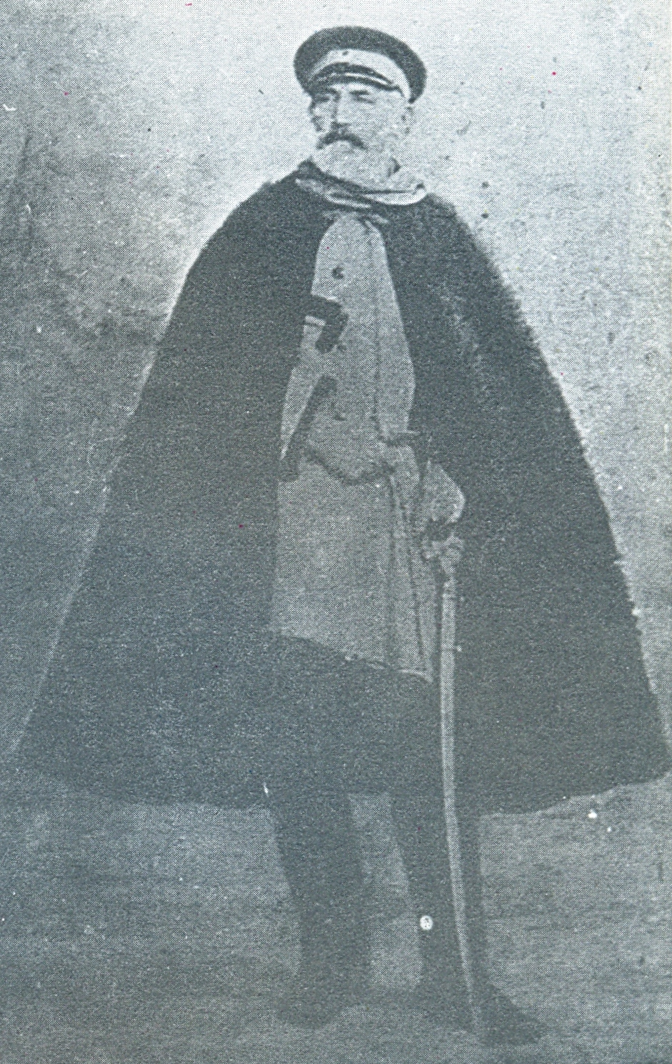 Velyaminov, Nikolay Nikolayevich